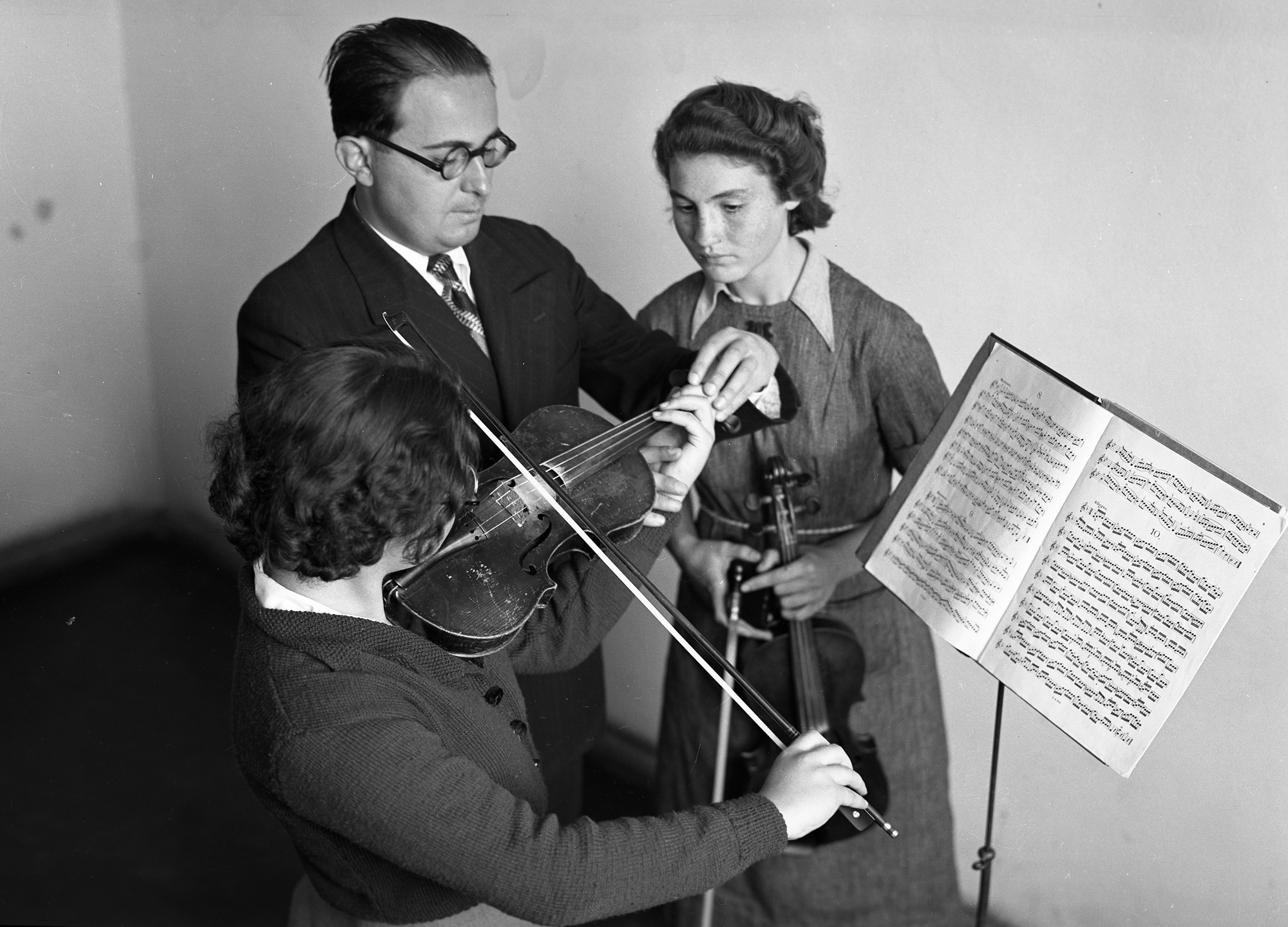 Music Teachers’ School was founded on November 1, 1924 under the auspices of Ministry of Education. The first principal of the school was Osman Zeki Üngör who was also the first conductor of the Presidential Symphony Orchestra. The students were children coming from the Male Teachers’ Training School (Erkek Muallim Mektebi) and Balmumcu Orphanage. One can spot the mudbrick hotel built by Şakir Ağa in the Hamamönü district. The Music Teachers’ School would be the core of the State Conservatory in future. The building became to host the Conservatory. Musiki Muallim Mektebi, 1930’lu yıllar. Cumhuriyet’in ilk yıllarında müzik öğretmeni sıkıntısı çekiliyordu. 1 Kasım 1924’te Maarif Vekilliğine bağlı Musiki Muallim Mektebi kuruldu. Okul Müdürü, Riyaset-i Cumhur Musikî Heyeti Şefi Zeki (Üngör) Bey, ilk öğrenciler Erkek Muallim Mektebi ile Balmumcu Öksüzler Yurdu’ndan gelen çocuklar. Okulun bulunduğu yere gelince, Hamamönü’nde Şakir Ağa’nın yaptırdığı kerpiç bir otel. 1927 yılında öğrenci sayısı artan okula yeni bir bina gerekiyor. Kerpiç yapıların bulunduğu yer 75 bin liraya satın alınıyor. Musikî Muallim Mektebi, ileride kurulacak Devlet Konservatuarı’nın çekirdeği. Bina, Konservatuar’a yuva oluyor.